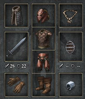 Screenshot of the dungeon crawler computer game Legend of Grimrock (2012), cropped to the character display